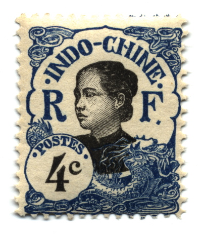 Scan of French Indochina 4c stamp of 1907